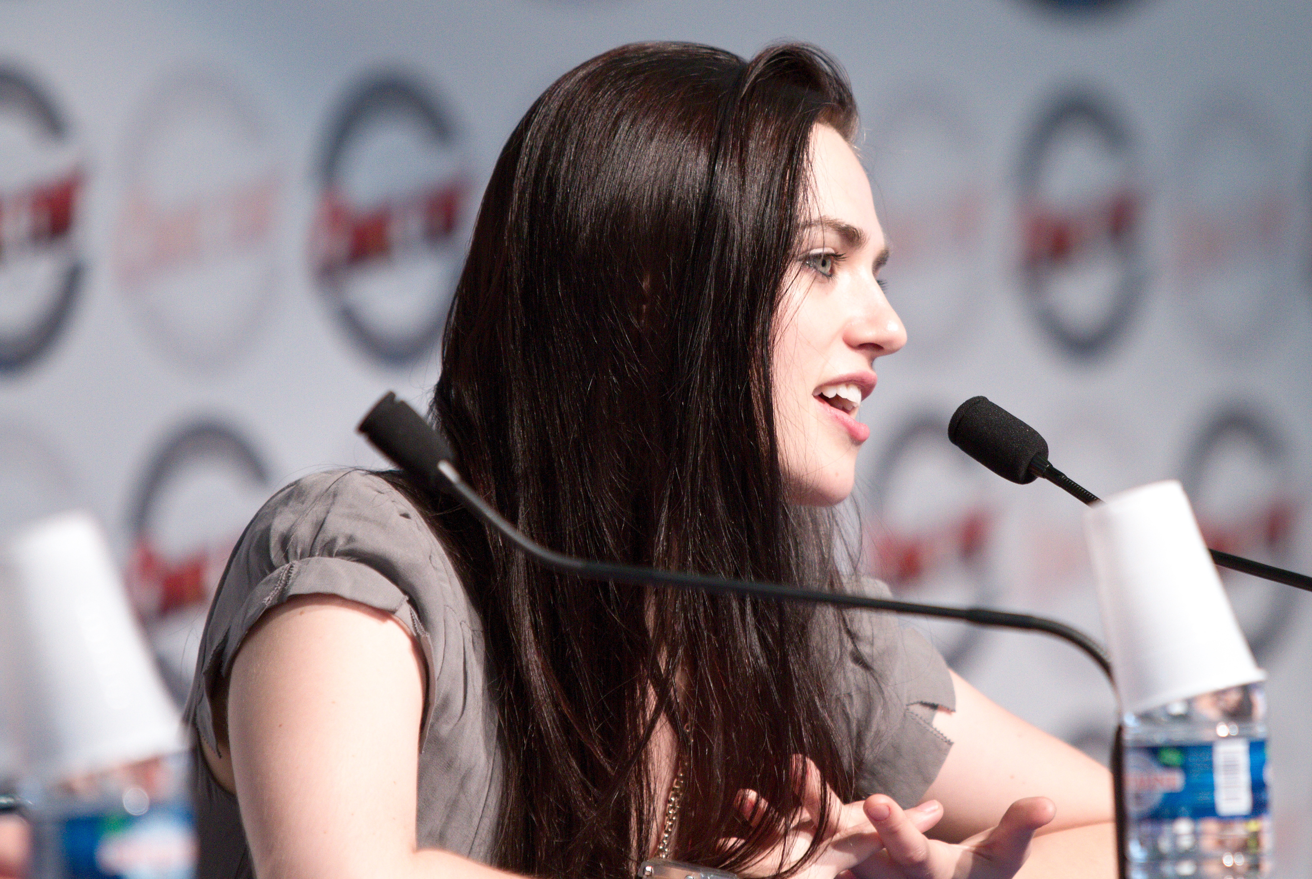 Angel Coulby and Katie McGrath's lecture at Japan Expo 2010 (Paris, France).